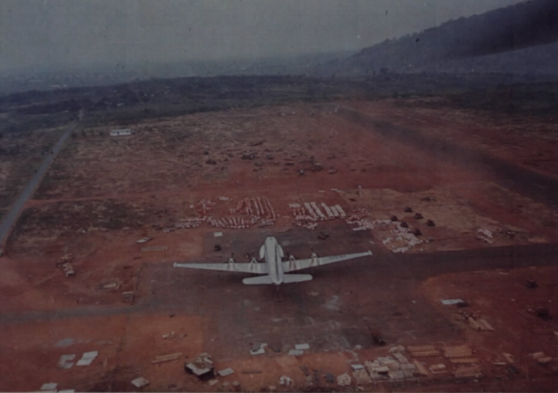 Aerial view of engineer equipment being off-loaded from a C-124 aircraft at Song Be during Operation Harvest Moon. The operation involved Co "C", 168th Engineer Battalion and a battalion of infantry from the 1st Infantry Division. The engineer mission entails the construction of an airfield at a CIDG camp NE of Saigon.